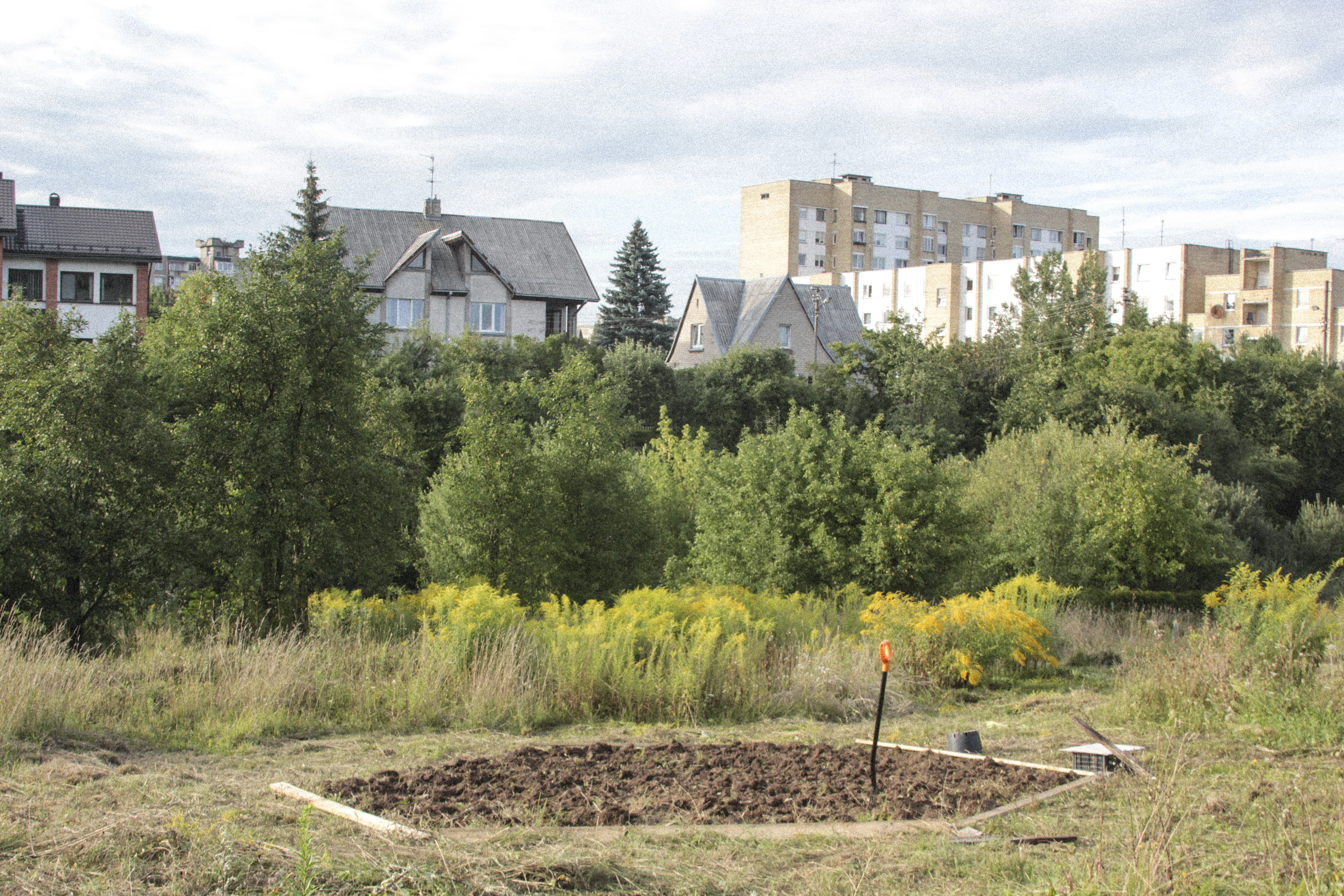 Kaunas Eighth Fort (Šilainiai, Kaunas), community garden, bee-friendly flower bed creation